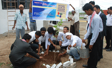 Tree Plantation Event by Rotaract Club of Nagpur, JIT